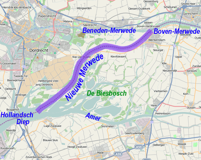 Nieuwe Merwede, Netherlands location map